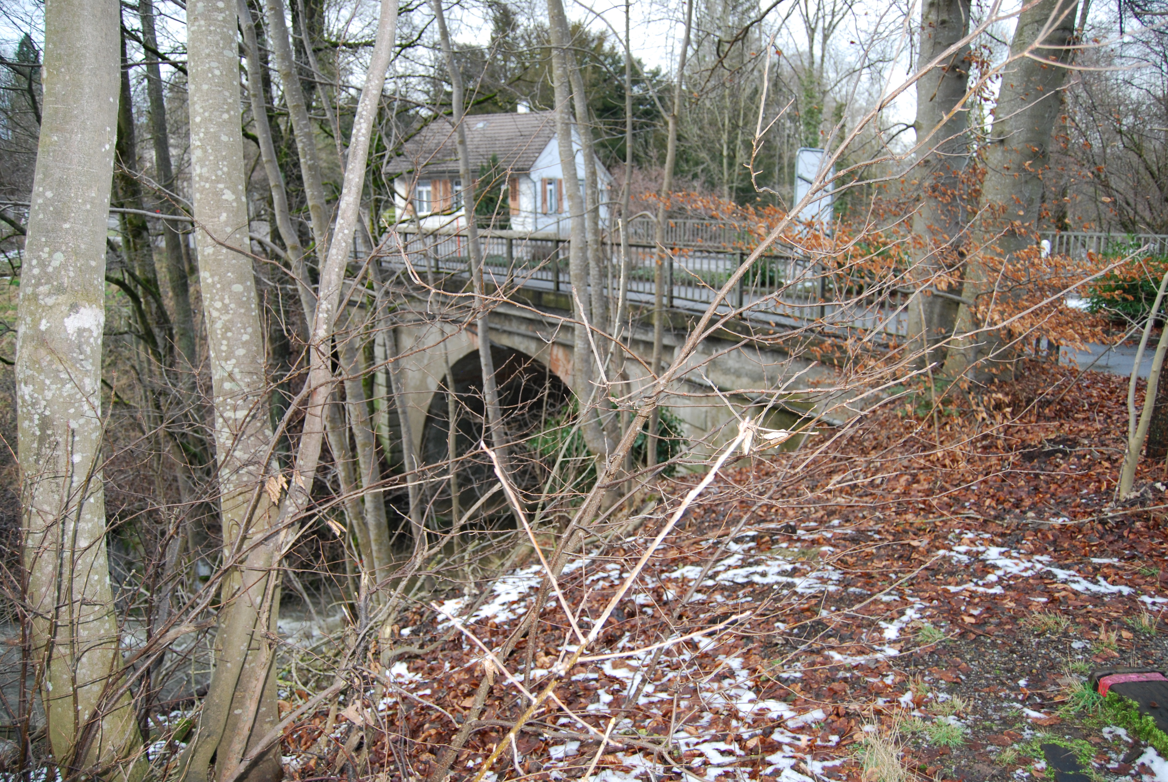 Bridge over Lützelmurg at Aadorf, canton of Thurgovia, SwitzerlandEsperanto: Ponto trans Lützelmurg en Aadorf, Kantono Turgovio, Svislando